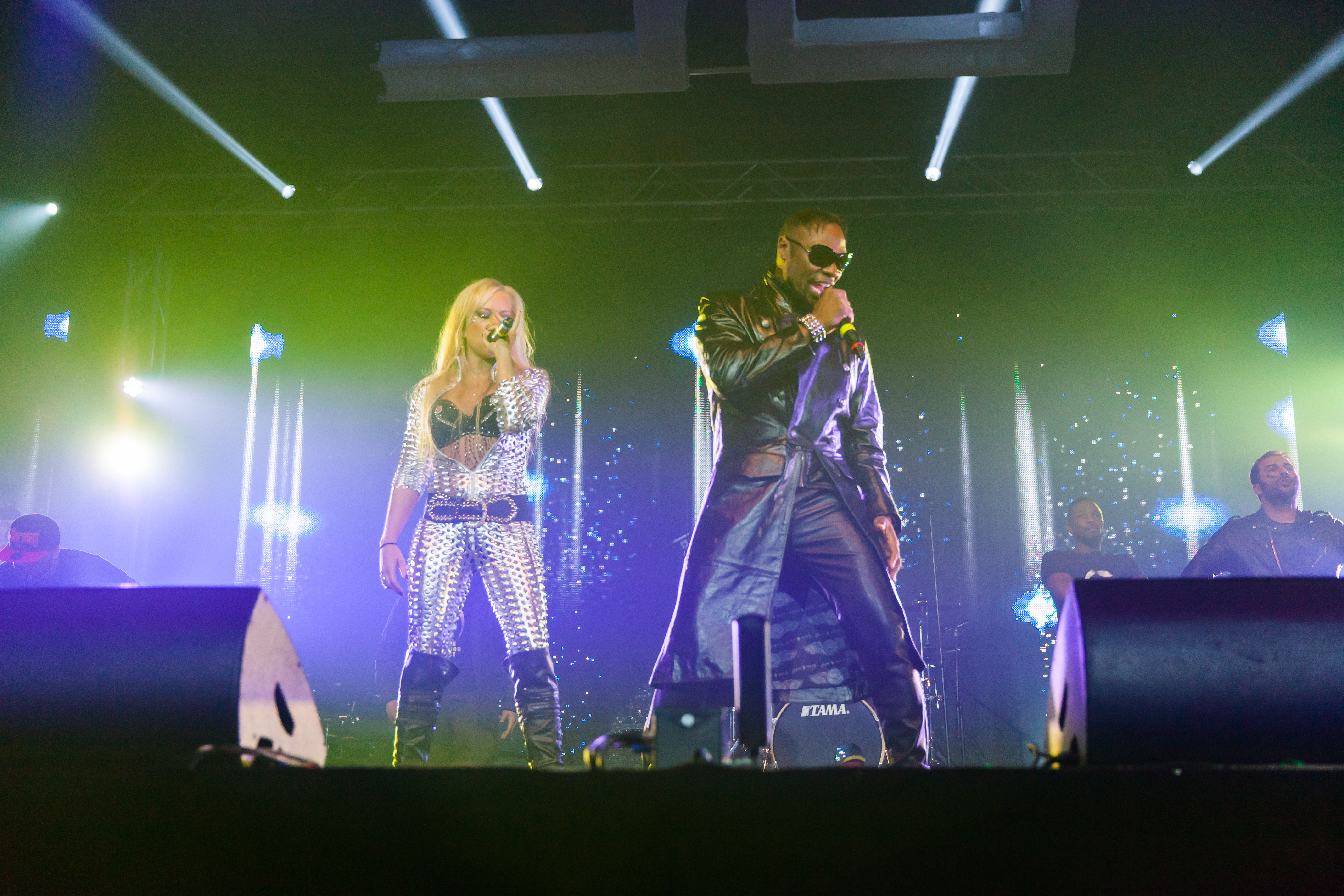 sunshine live "Die 90er - Live On Stage" Maimarkthalle Mannheim DJ Falk, Magic Affair, Captain Hollywood Project, Haddaway, Masterboy, 2 Unlimited, Marusha, Charly Lownoise